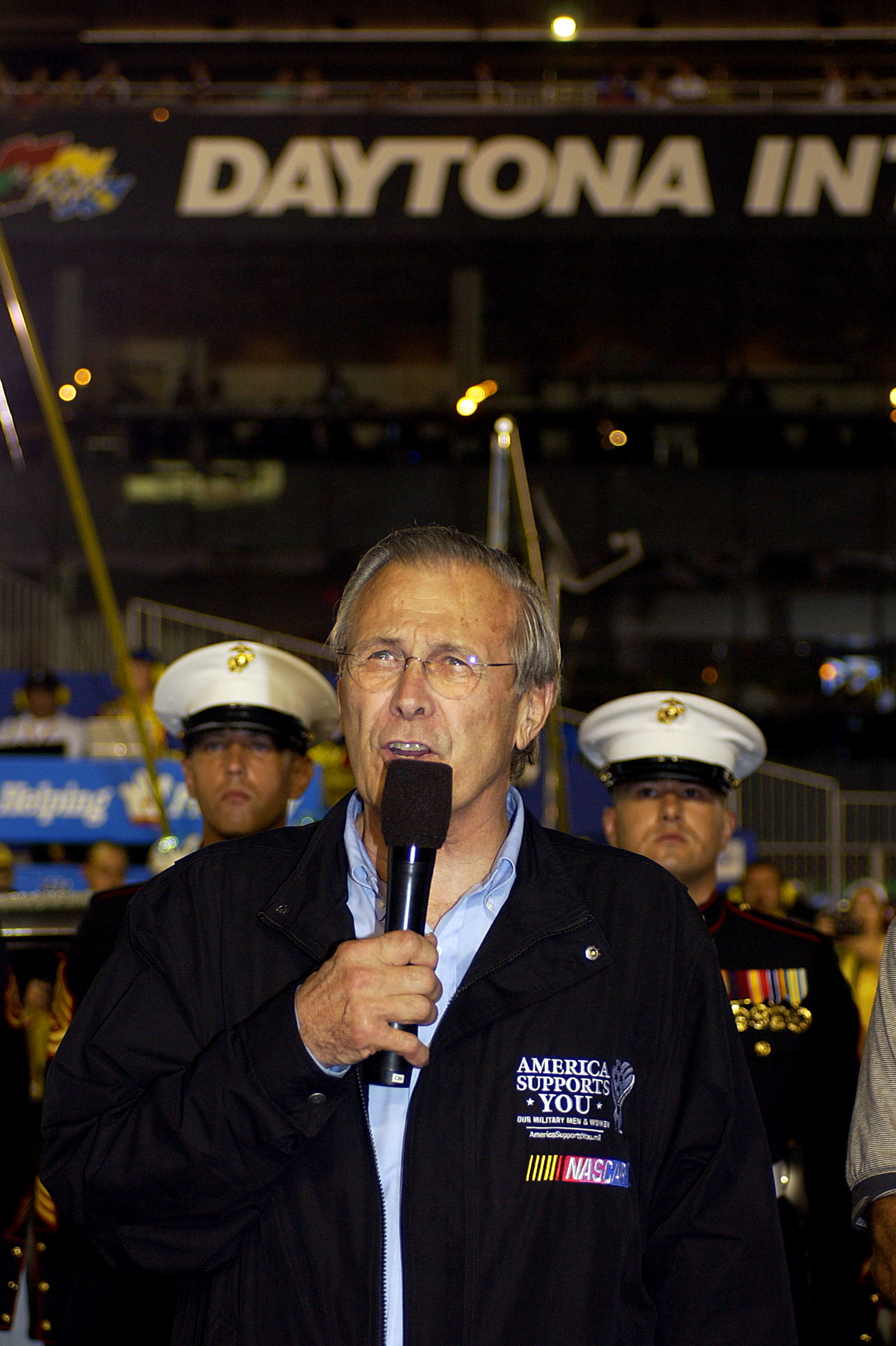 Secretary of Defense Donald H. Rumsfeld gives the command "Gentlemen, start your engines" at the Pepsi 400 at Daytona International Speedway, Fla., on July 2, 2005. Rumsfeld served as the as the Grand Marshal of the 47th running of the Pepsi 400 and met with NASCAR fans, drivers and their pit crews as he toured the infield before the race.